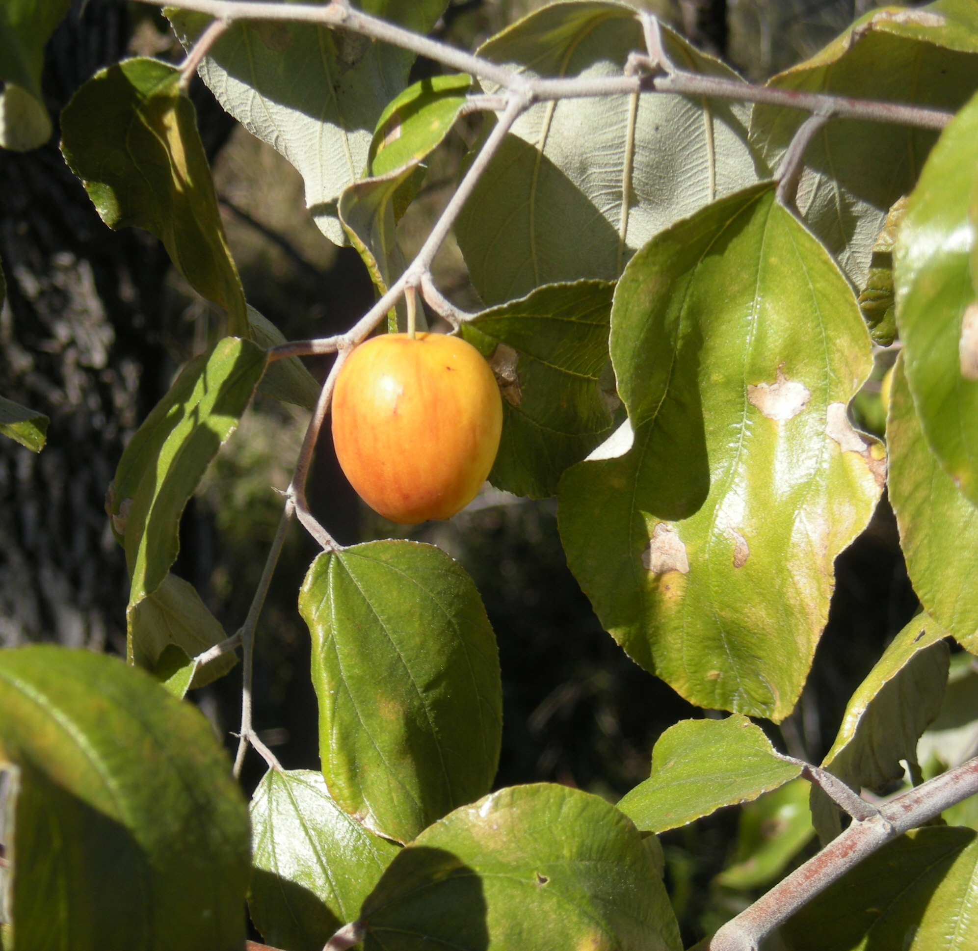 Ziziphus mauritiana fruit and foliage, Mount Archer National Park, Rockhampton